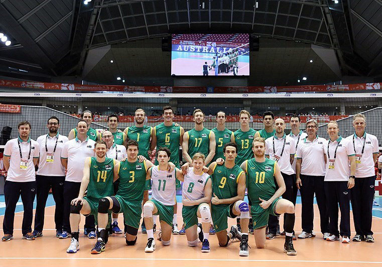 Australia - Iran match in Japan. Iran defeated Australia in straight sets.